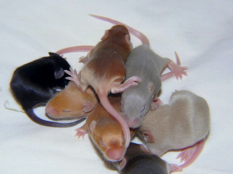 A few varietes of house mouse